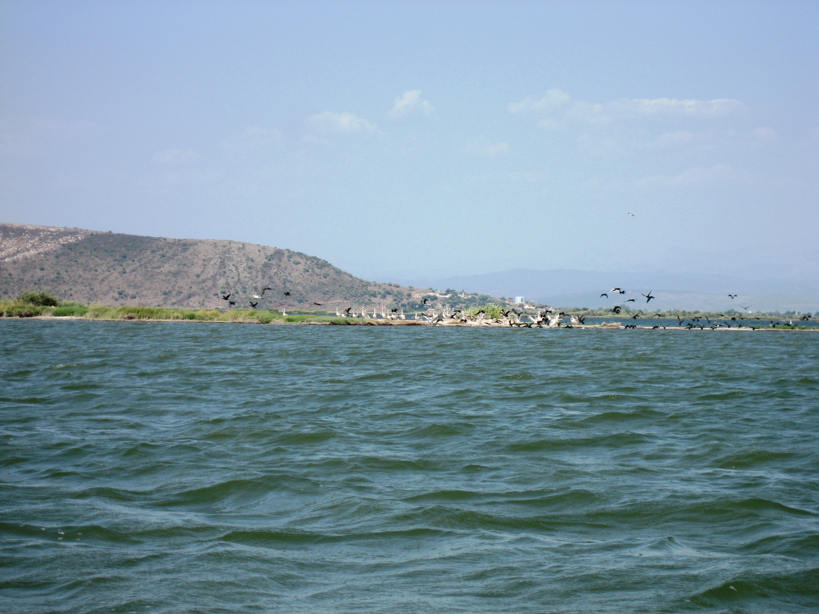 Ambracian Gulf in Greece (pelicans and cormorants).